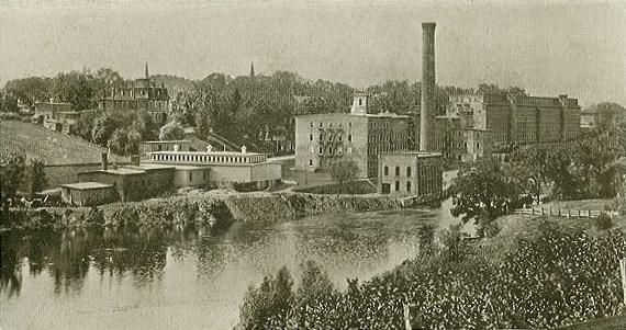 Mills of Salmon Falls Manufacturing Co., Salmon Falls, NH; from a 1906 postcard.